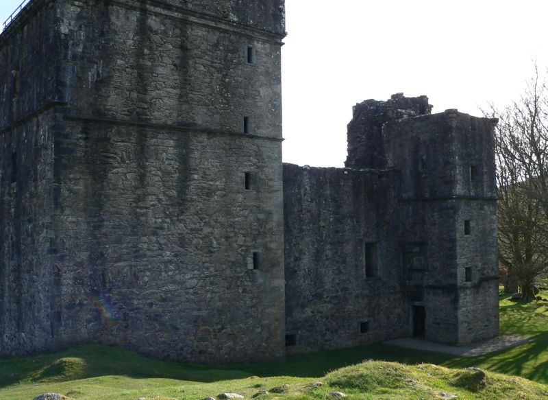 Carnasserie castle, Scotland